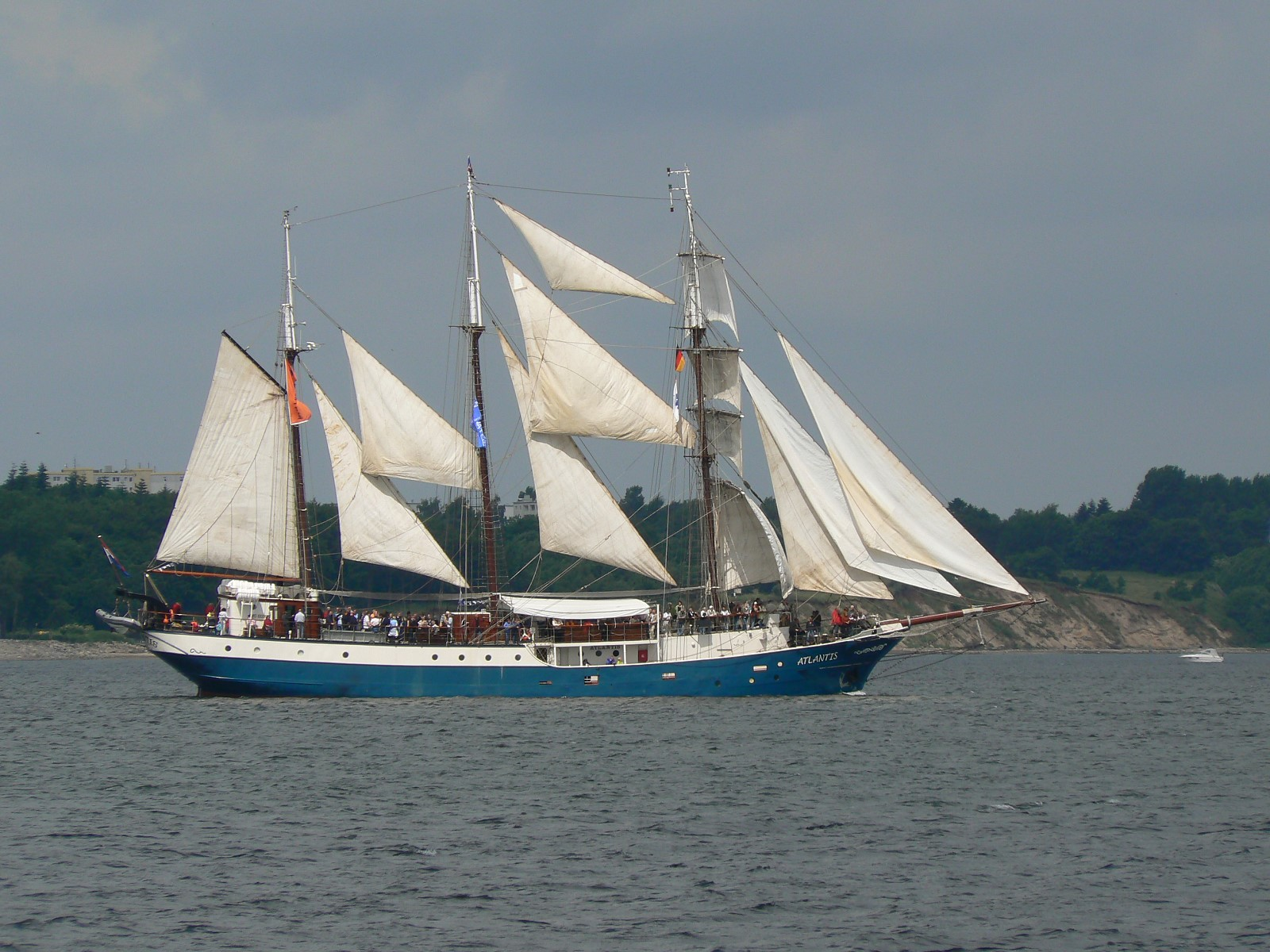 The three mast sailing ship (a barquentine) Atlantis during the Kiel Week 2007.